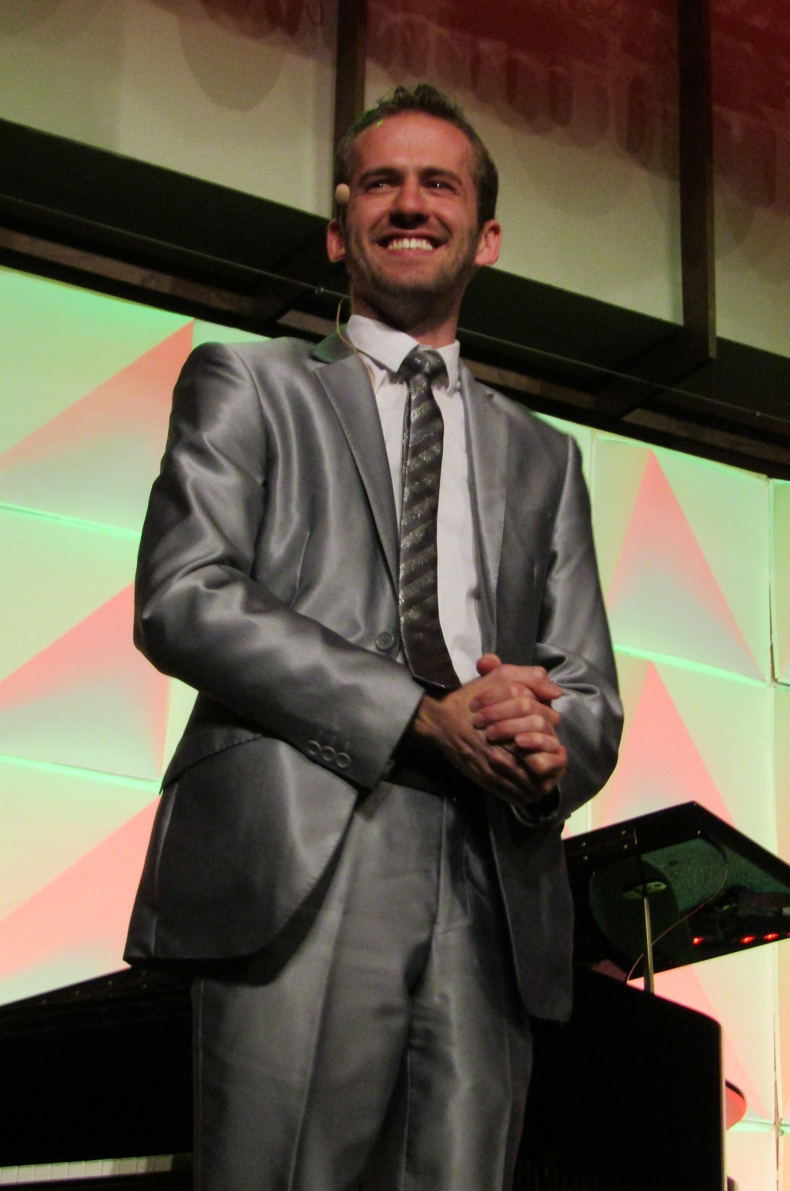 Jason Lyle Black at The Summit: BYU Leadership Conference.